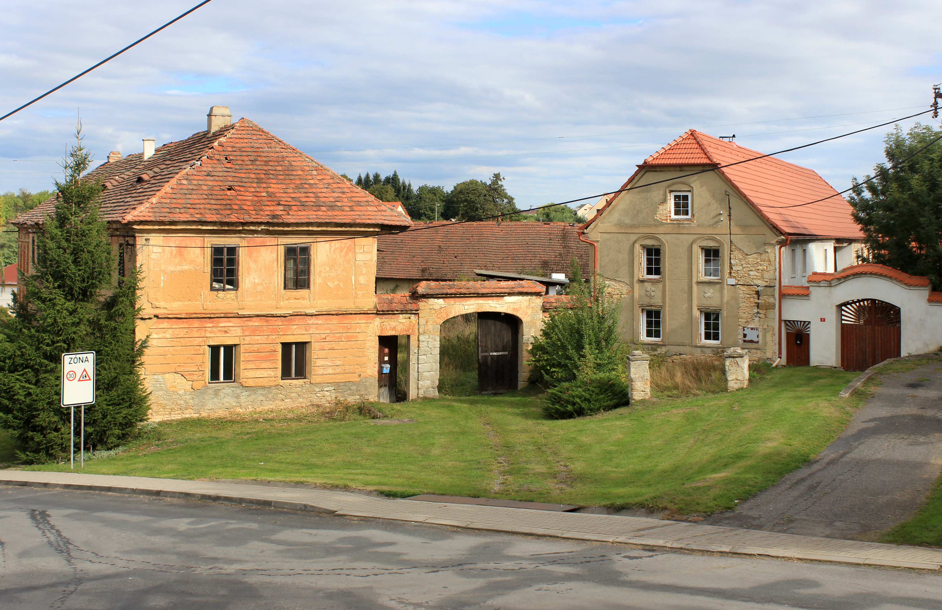 Houses No 4 and 3 in Velký Újezd, part of Chorušice, Czech Republic.